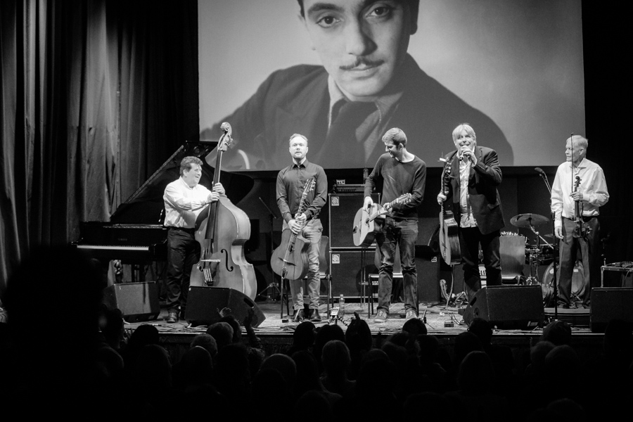 Hot Club de Norvège with Sebastien Giniaux at Cosmopolite. The concert was part of Djangofestivalen and took place on 19. January 2018 in Oslo. Lineup: Jon Larsen (guitar), Svein Aarbostad (double bass), Finn Hauge (fiddle), Stian Vågen Nilsen (guitar) and Sebastien Giniaux (guitar).